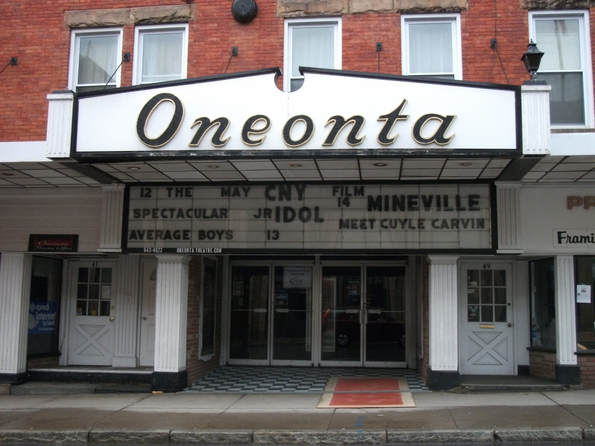 Oneonta, New York